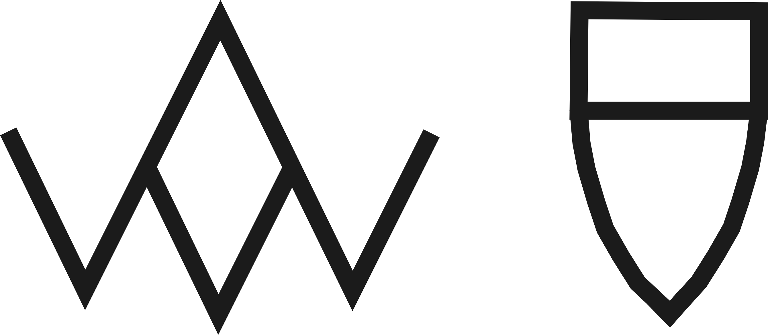 Foundry marks for Gerhard Kranemann